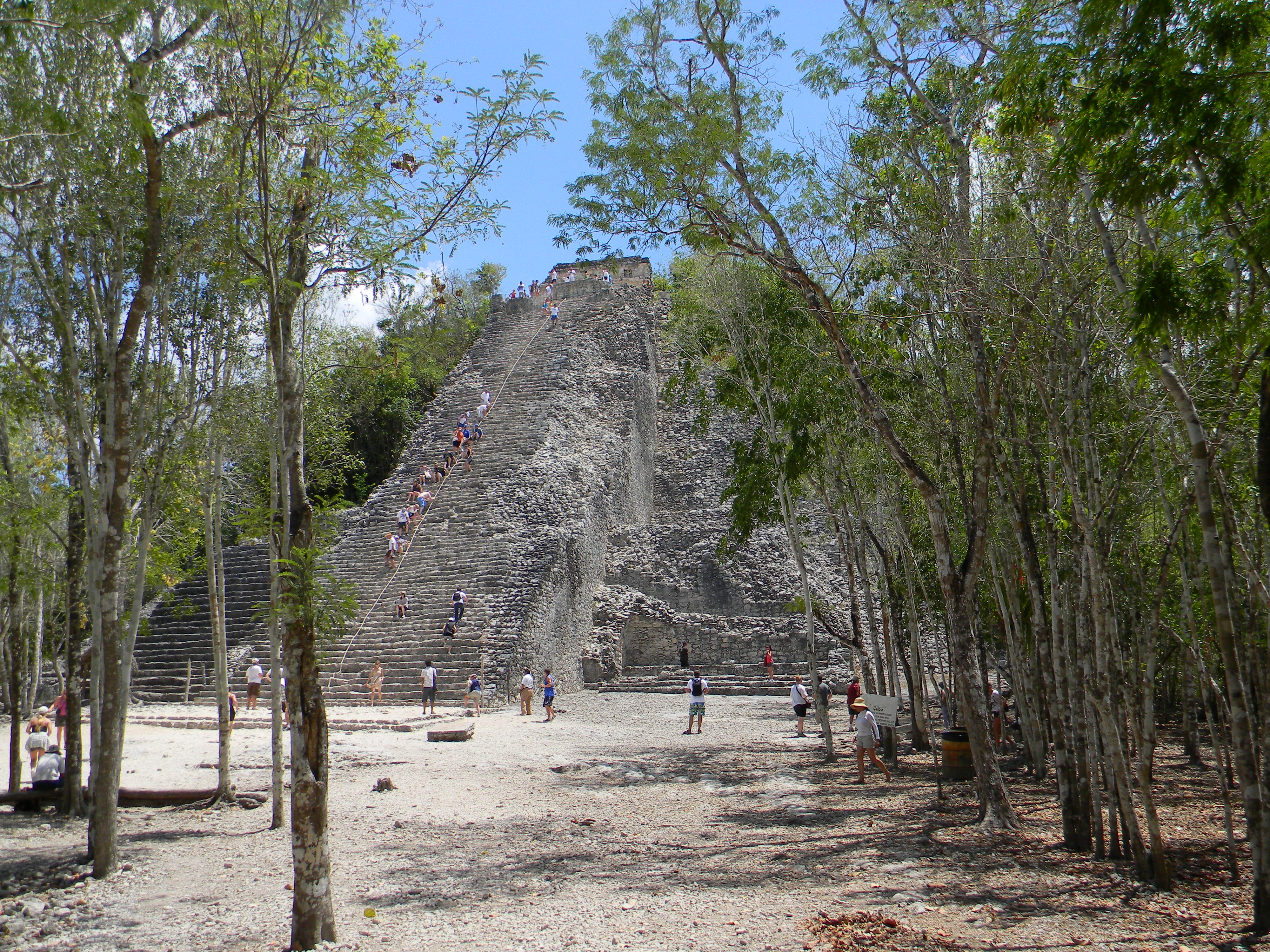 Closer view of Cobá - Grupo Nohoch Mul Piramid